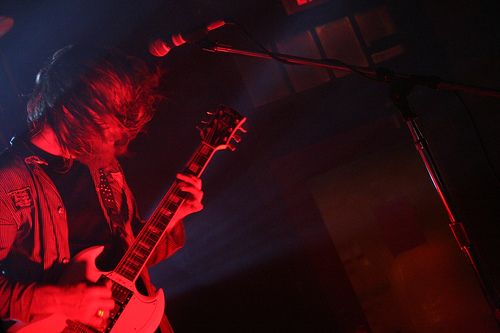 Dan Auerbach, guitarist of The Black Keys, performing at Young Avenue Deli in Memphis, TN.